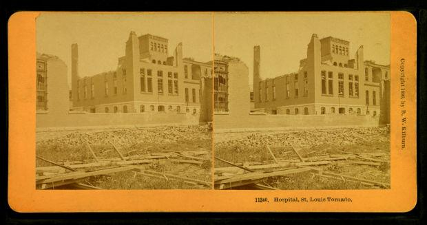 A stereograph of the 1896 St. Louis tornado destruction of City Hospital, photographed by , B. W. (Benjamin West) Kilburn,1827-1909.